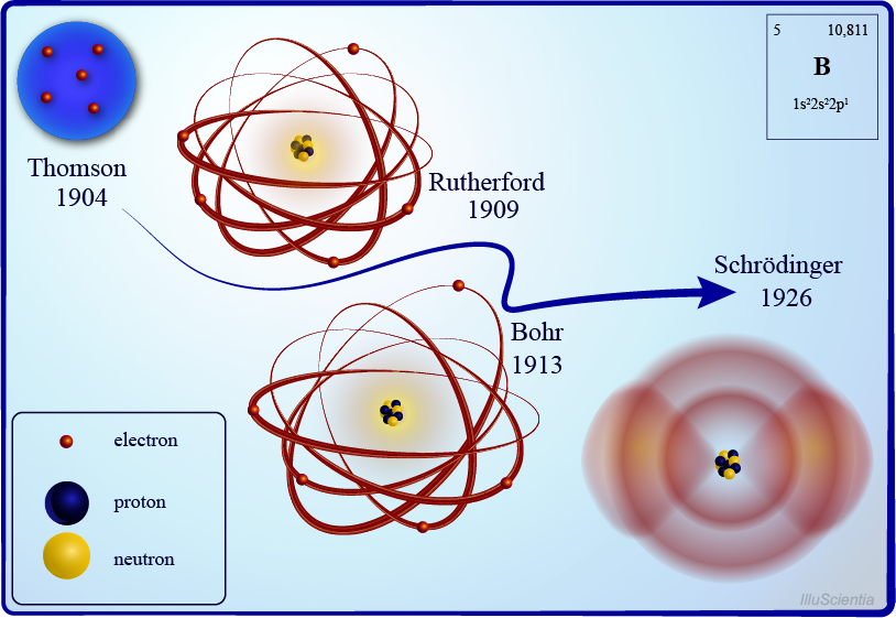 Comparison of 4 early models of atoms on the example of boron atom